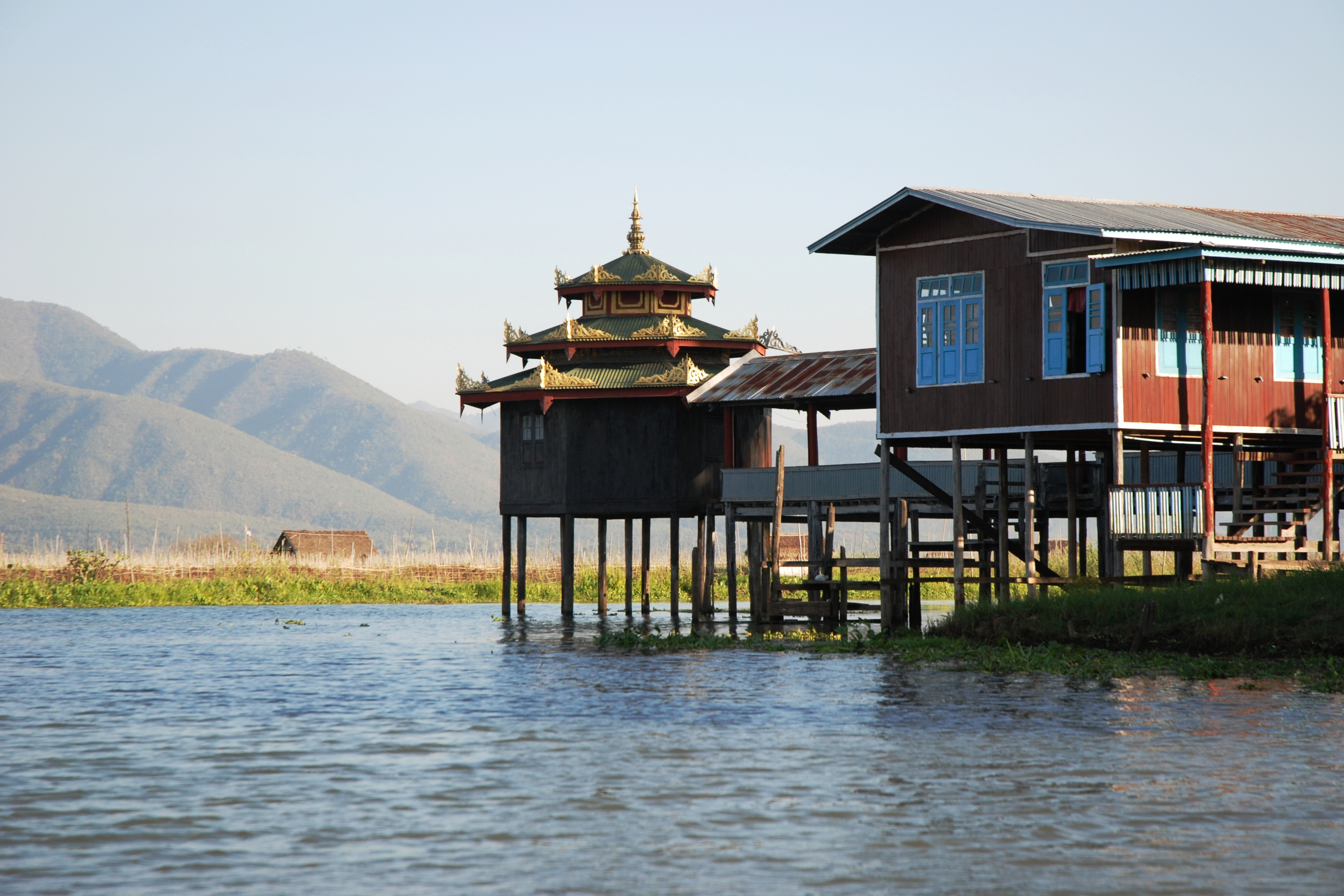 Inle Lake, Burma – Nga Phe Kyaung Monastery